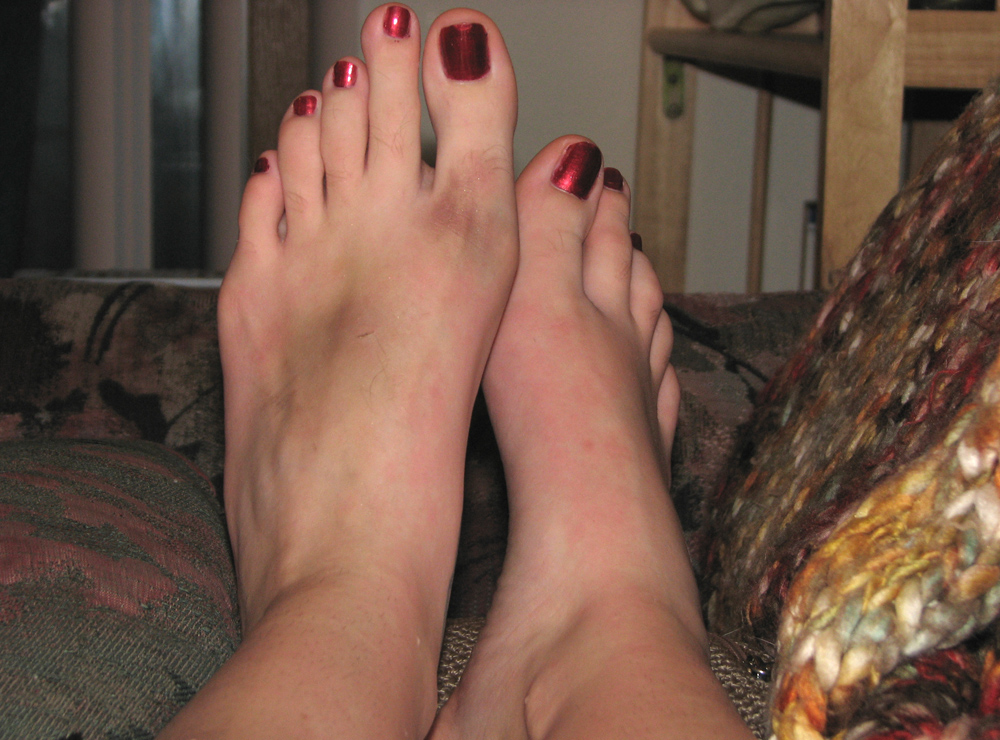 37/365 Last night I was walking in to the extra bedroom to put away some wrapping paper and other holiday items I purchased. I had a pile of stuff in my arms and as a result, I tripped over a foot long iron piggy-bank we use as a door stop. I kicked that thing HARD. Apparently I made a noise such that my husband thought it was a cat howling. The pig snout hit me right in the middle of my foot where all those little toe bones come together. (I didn't even notice the bruise near my big toe until this morning.) Oh, the pain. I don't know that I've ever injured this part of my foot before. I barely slept last night due to the pain. I wore a loose pair of slip-on shoes and spent half the day at work with that shoe off, foot throbbing and distracting me. The hot shower I took earlier did help a lot. It STILL hurts bad. Lessening though.